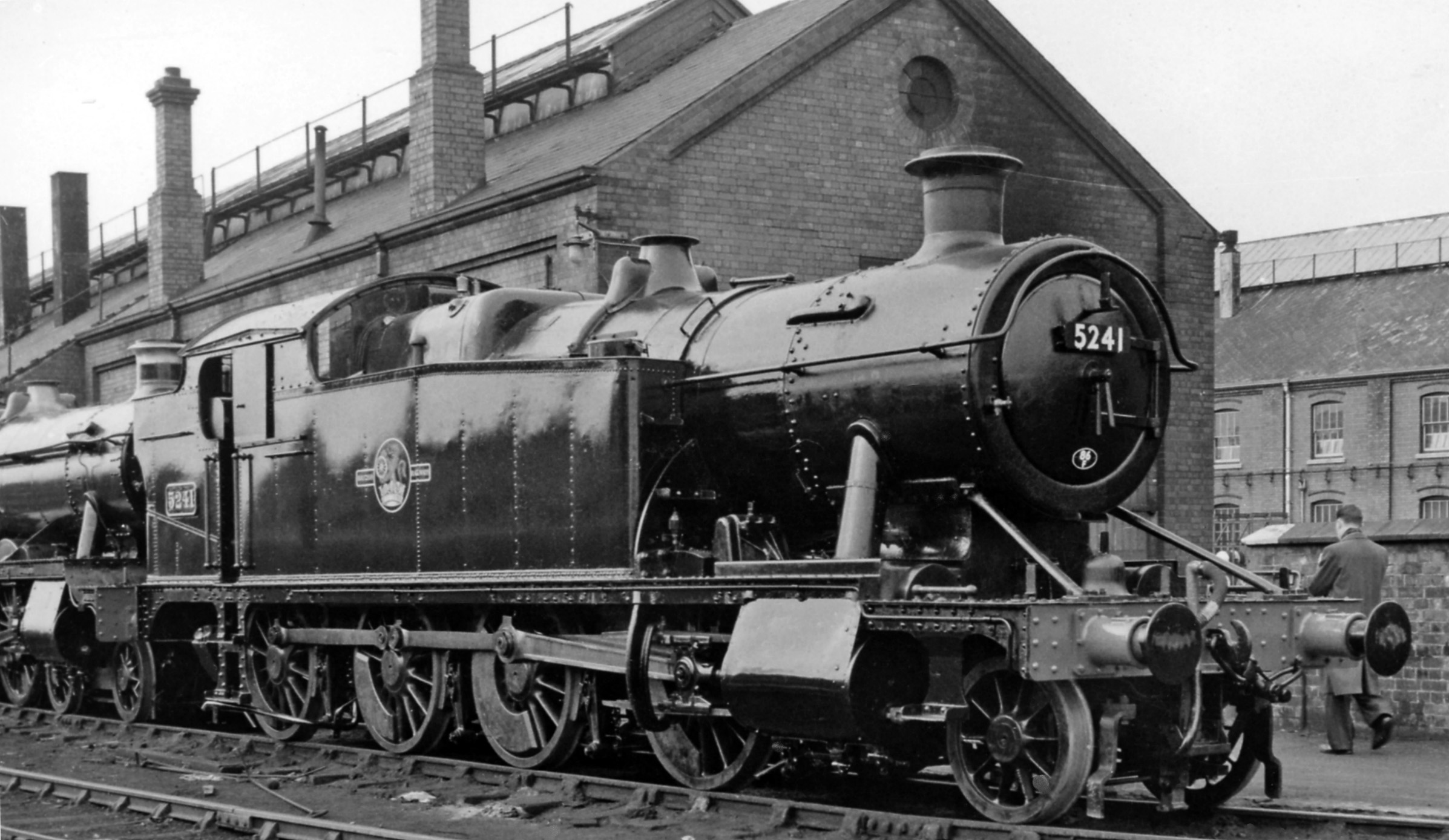 A GW 2-8-0T at Swindon Works, fresh from repair. No. 5241 was built in 8/24 and lasted until 6/65. Behind is 4-6-0 No. 5979 (see SU1384 : 'Hall' 4-6-0 outside Swindon Works, fresh from repair.